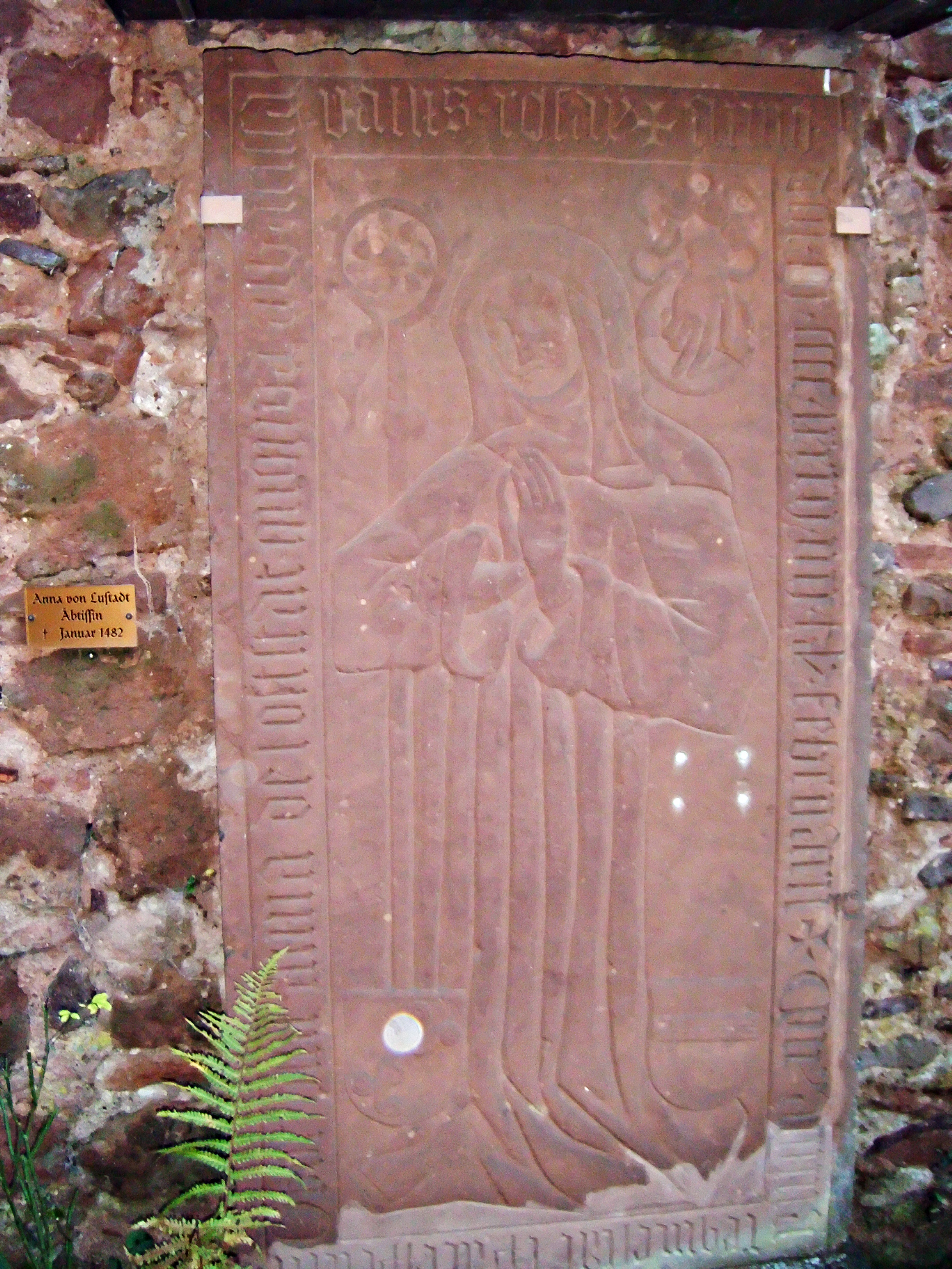 Grabplatte der Äbtissin Anna von Lustadt (+ 1485), Kloster Rosenthal, Pfalz